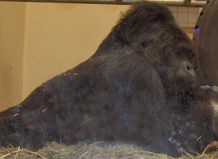 Species Gorilla beringei graueri Family Hominidae